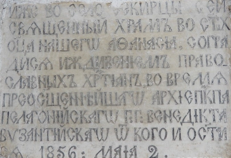 Inscription in St Athanasius Church, Sekirtsi